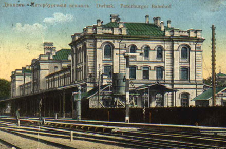 Daugavpils (before 1893 – Dinaburg, before 1920 – Dvinsk) St. Petersburg–Warsaw Railway Station.